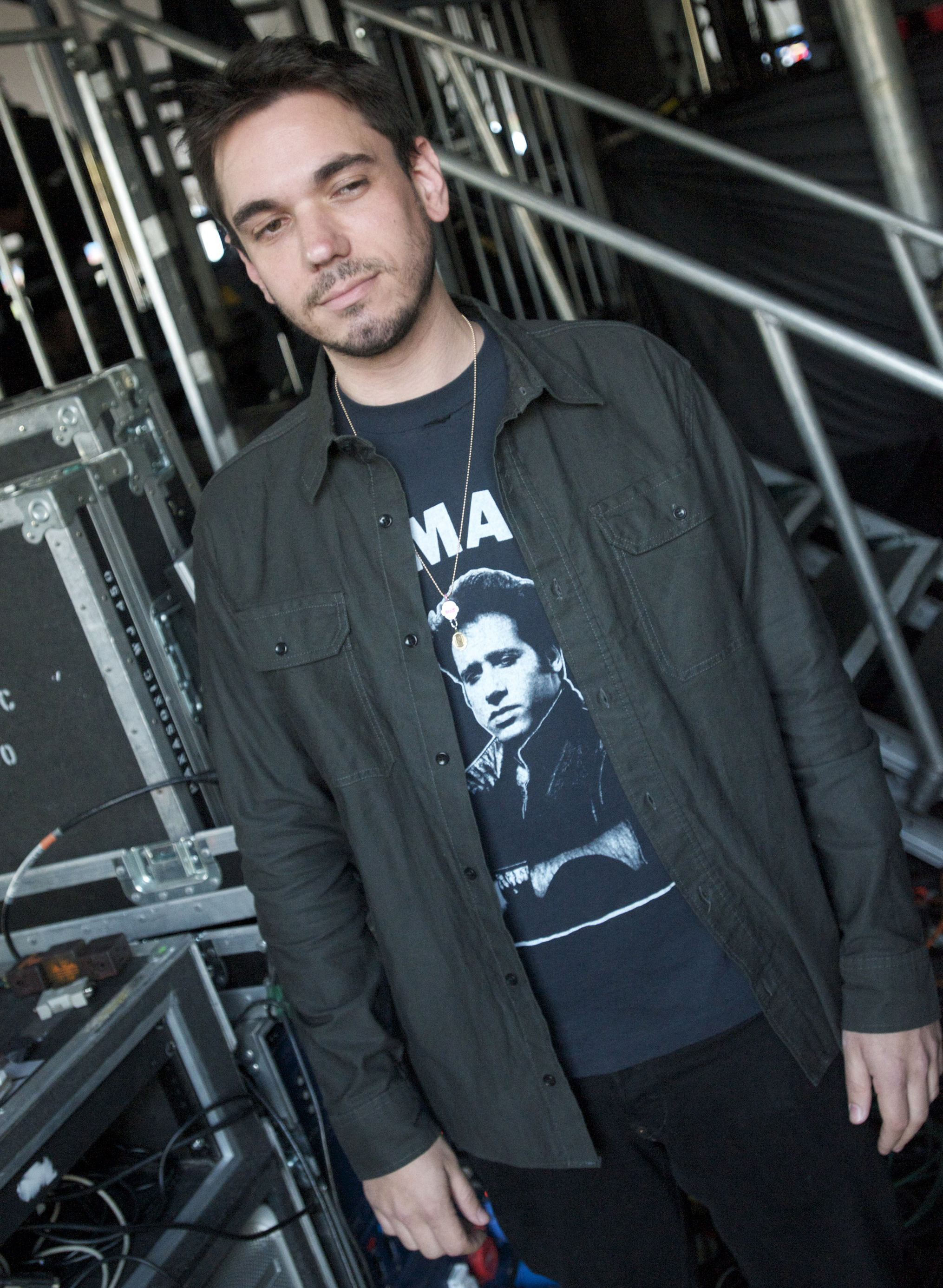 Adam Goldstein in June 2009.